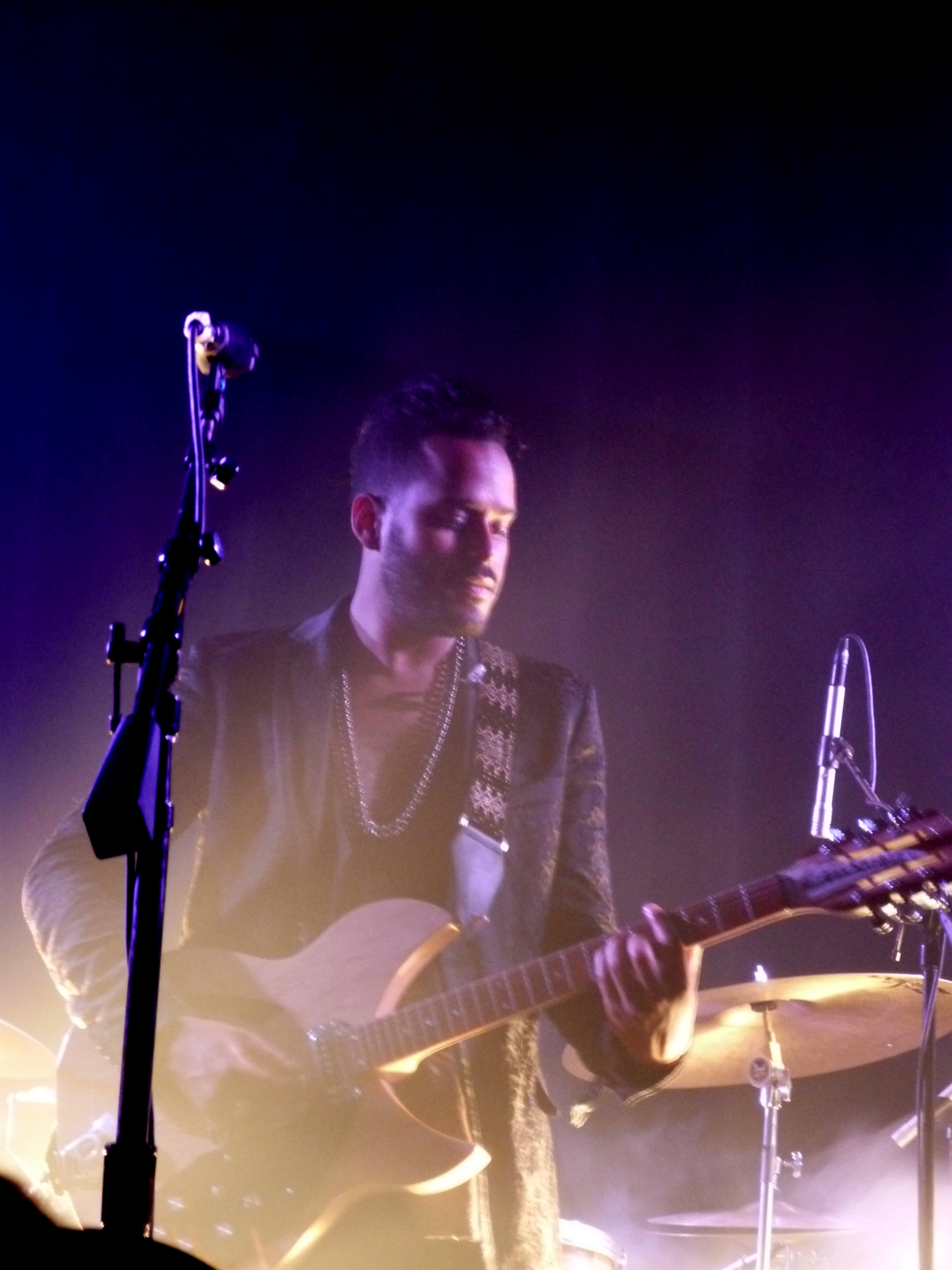 This is a picture of the artist Twin Shadow. This was taken by me at Lincoln Hall in Chicago, Illinois.